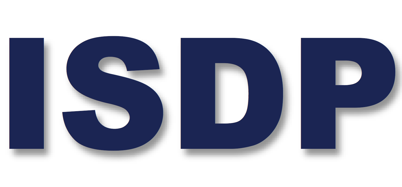 This is a logo similar to the logo for the International Society for Developmental Psychobiology